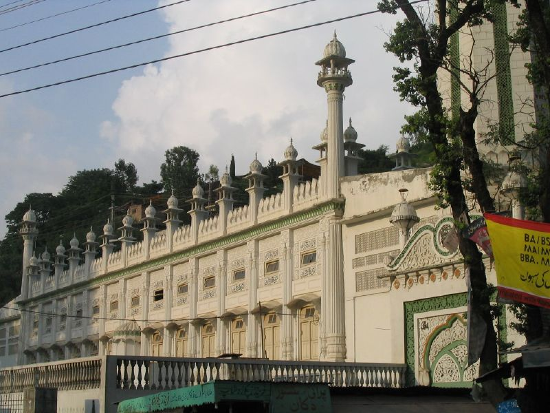 Ilyasi Mosque in Abbottabad, Pakistan